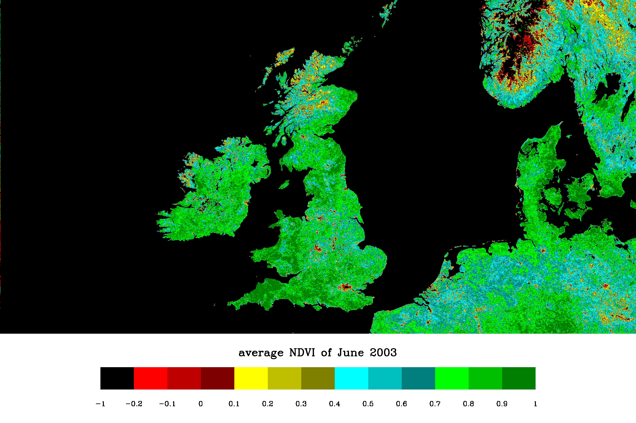 Average NDVI in June 2003 over the British Isles (NOAA AVHRR)